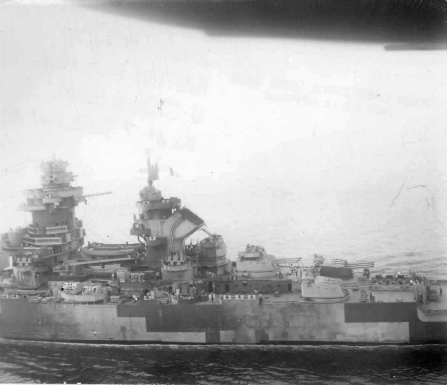 Aerial view of the French battleship Richelieu off New York City (USA), 1943. Note that in the original description the photo was taken by a U.S. Navy patrol plane when Richelieu was en route to New York, which was in February 1943. However, in the photos she is already equipped with 40 mm and 20 mm flak guns, her forward turret is repaired and her aircraft installations aft have been removed. The photo was therefore taken after her refit, in September or October 1943.